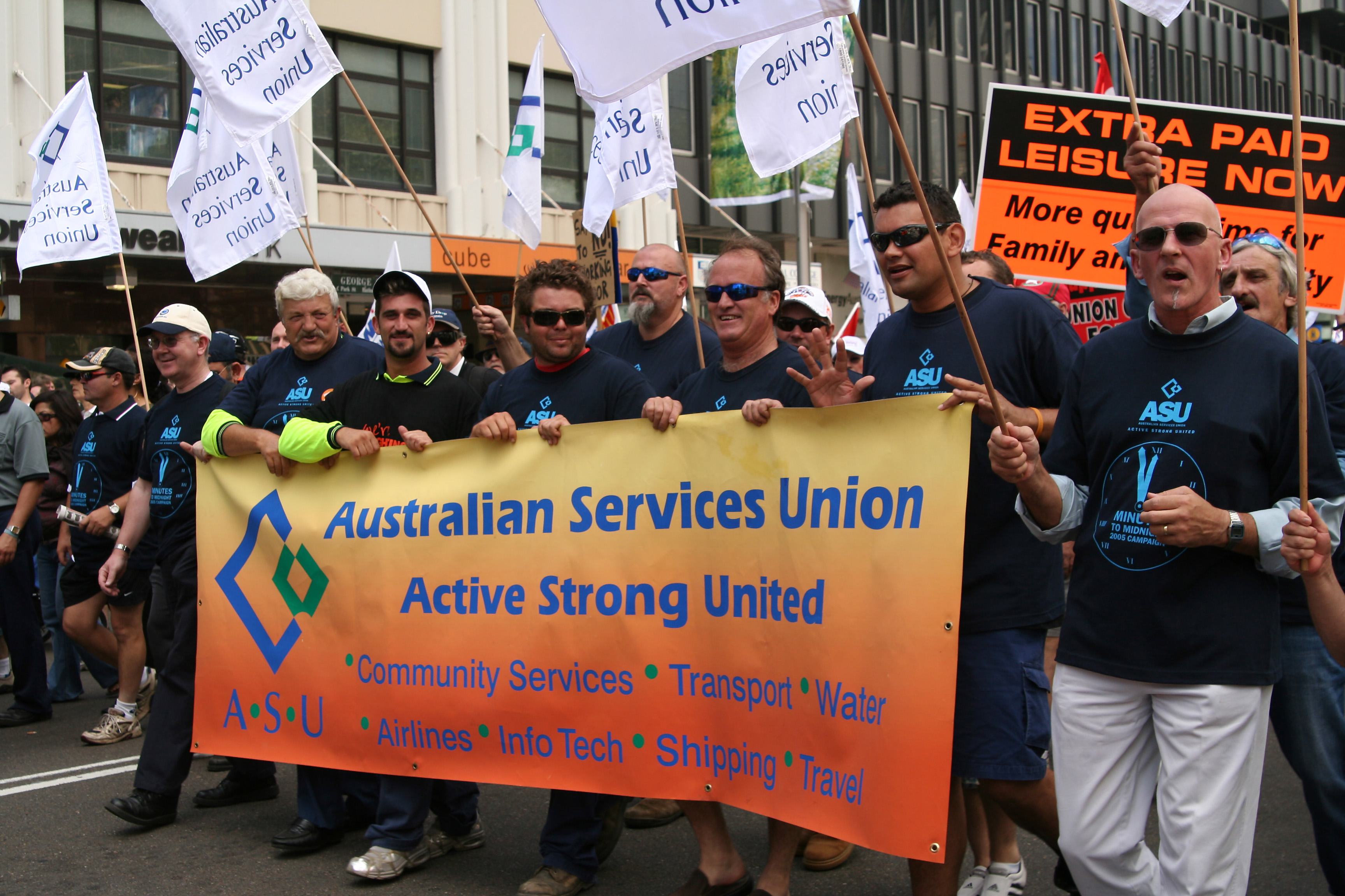 This photo is relevant to the Australia NSW Sydney IRProtest.